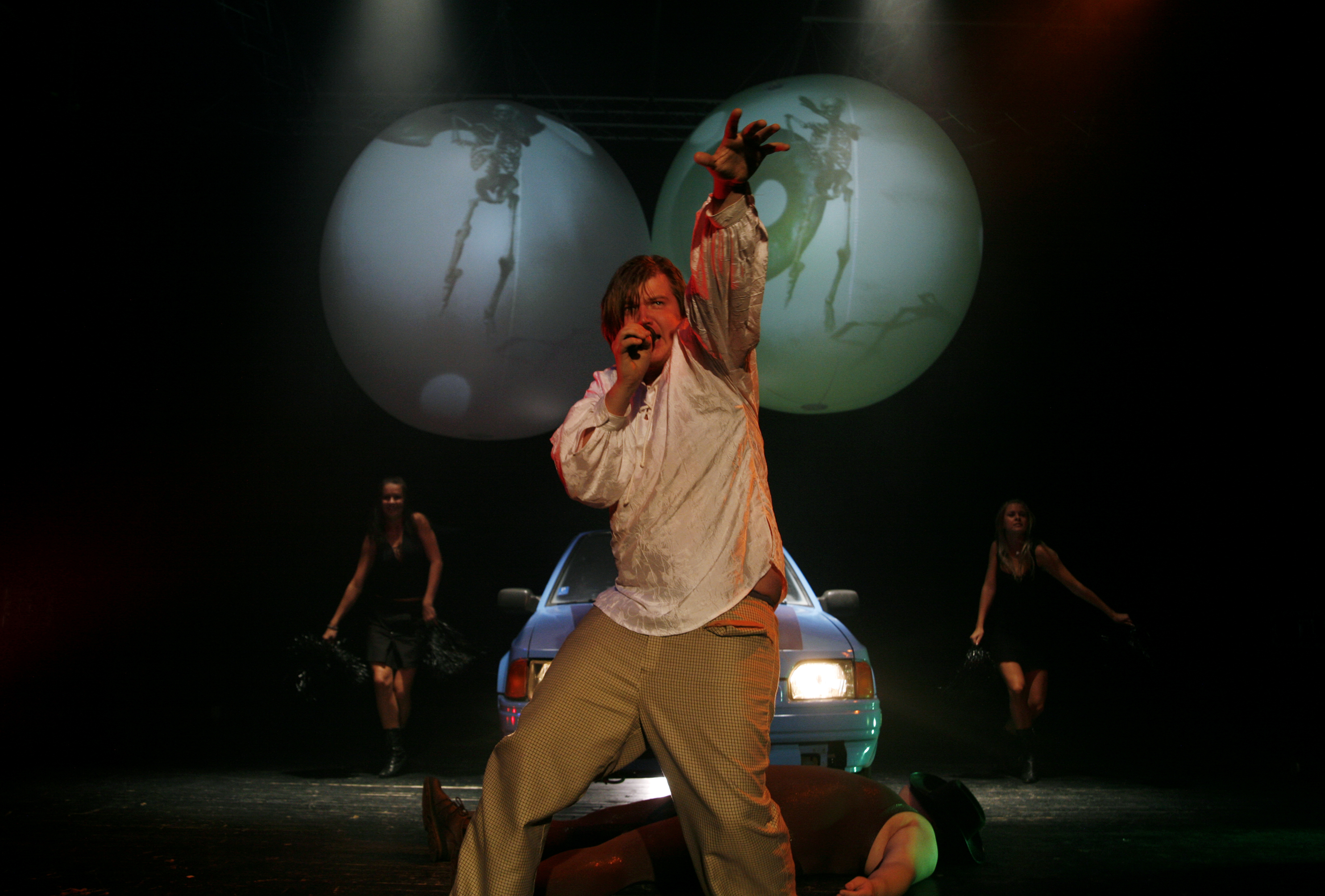 Estonian musician Chalice as Faust in Von Krahl Theatre, Tallinn.